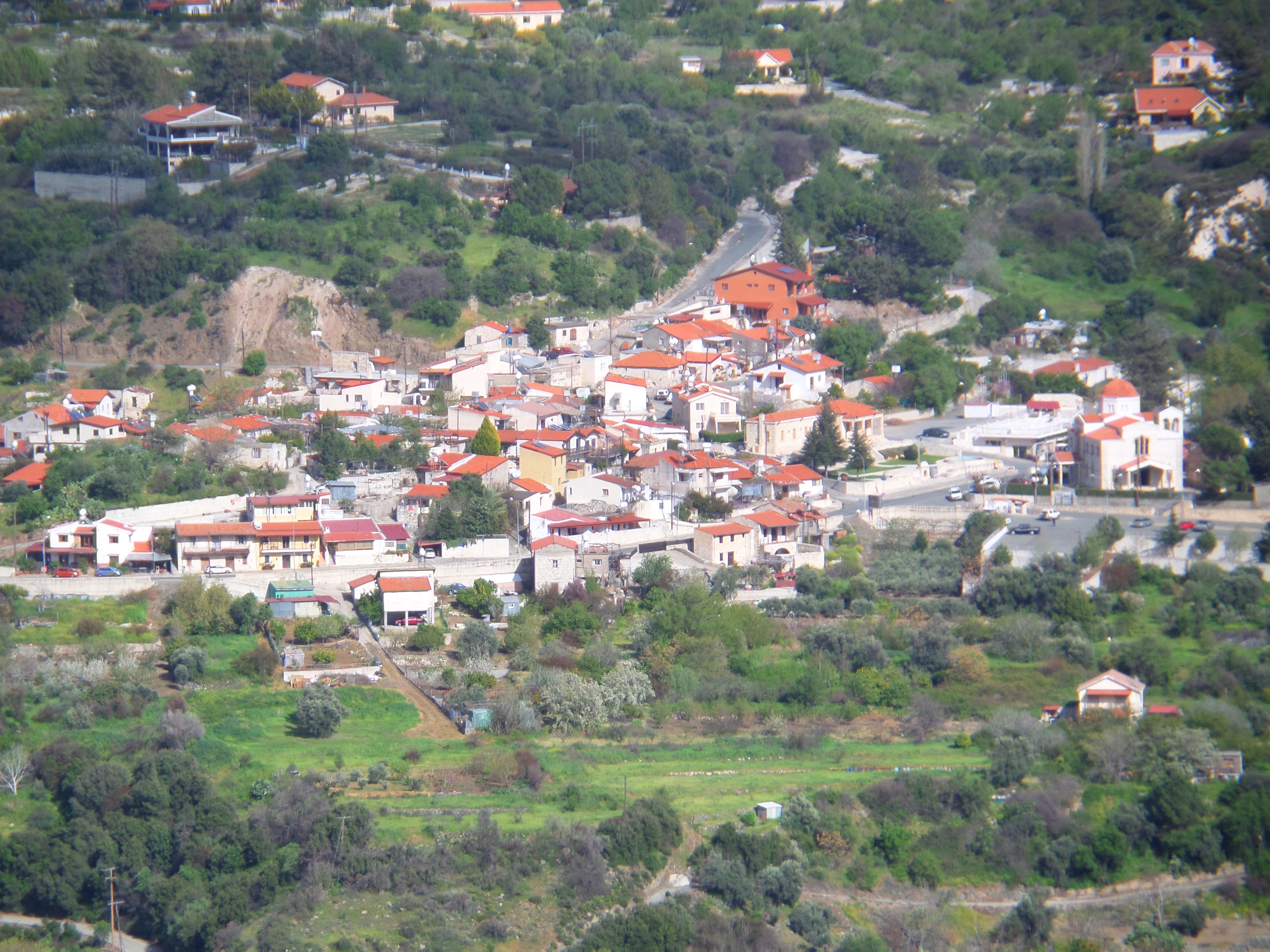 View of Trimiklini.